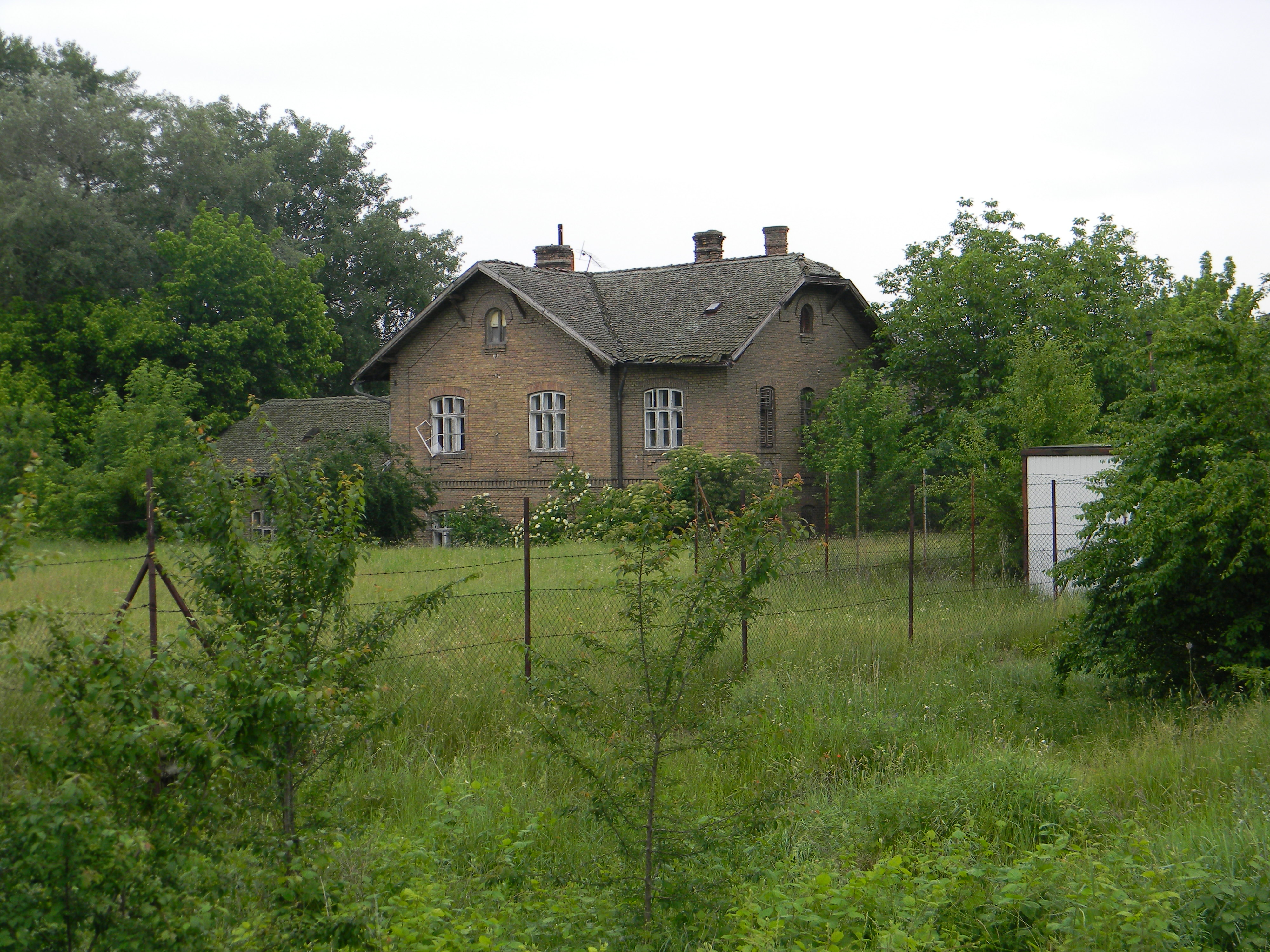 Old silk factory in Pančevo, now shuted down